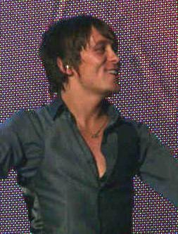 Mark Owen during the Beautiful World tour in Manchester